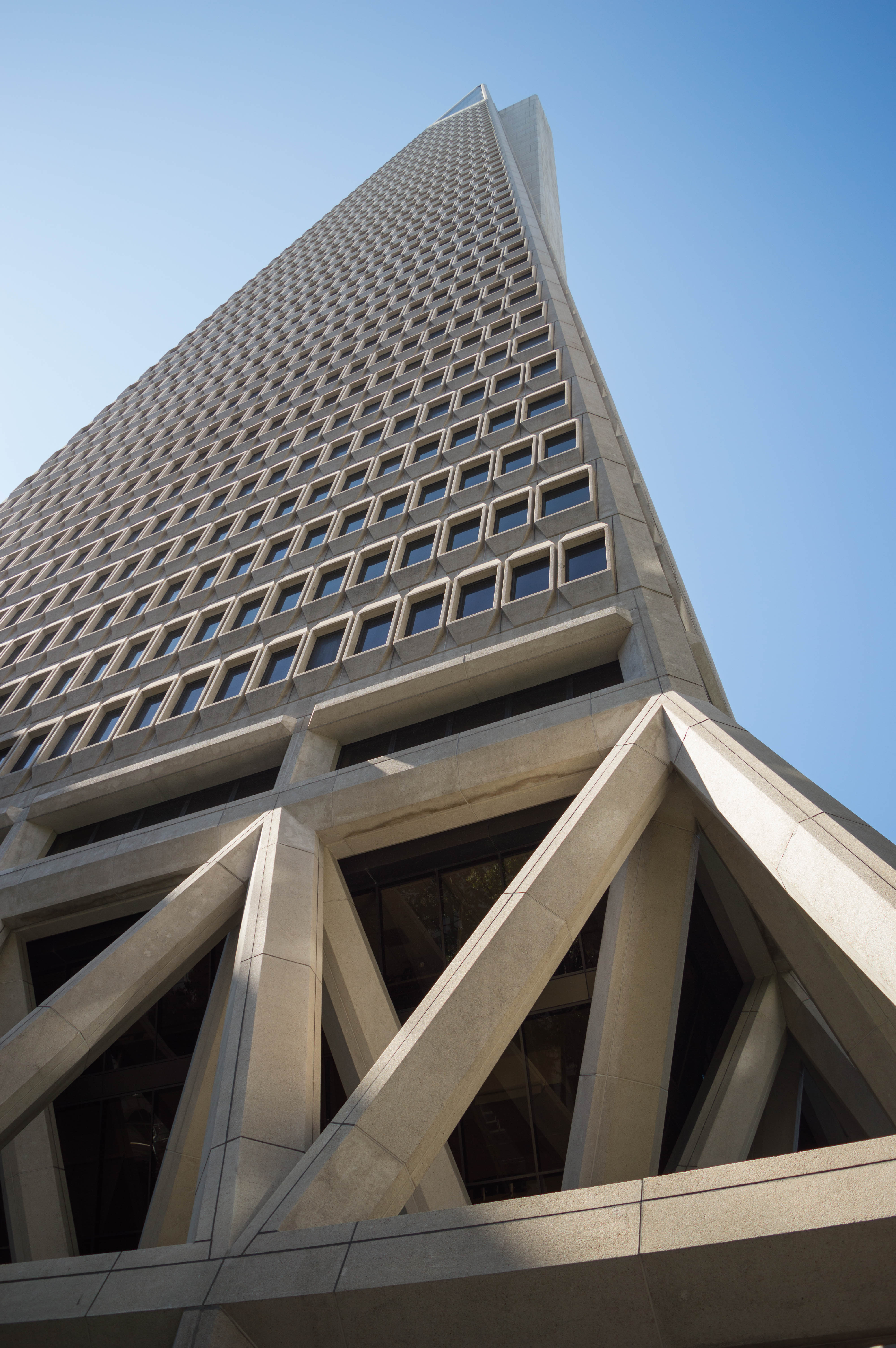 The Transamerica Pyramid in San Francisco from the foot of the building.